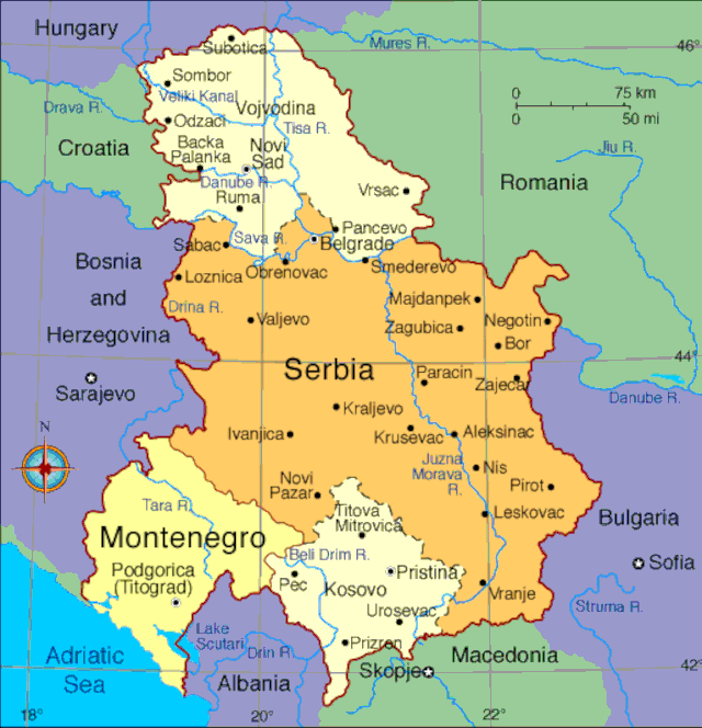 Map of Serbia and Montenegro with the two Republics Serbia and Montenegro and the Serbian Autonomous Province of Vojvodina and the Autonomous Province of Kosovo and Metohija; 1997